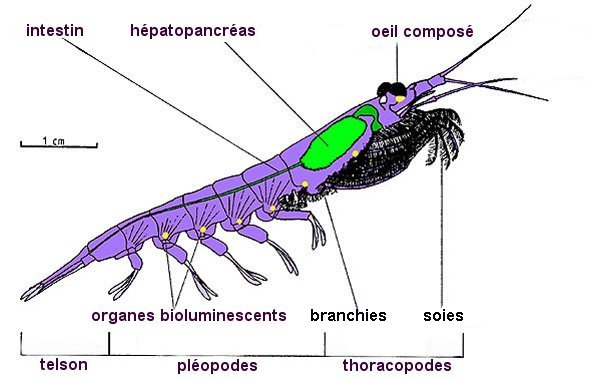 antarctic krill anatomy graph by uwe kils gfdl modified and translated from Kils & Klages 1979 Source: english wikipedia, original upload 15 June 2005 by User:Kils